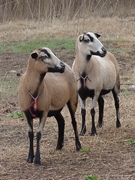 USDA small ruminant project at Virginia State University (2001).